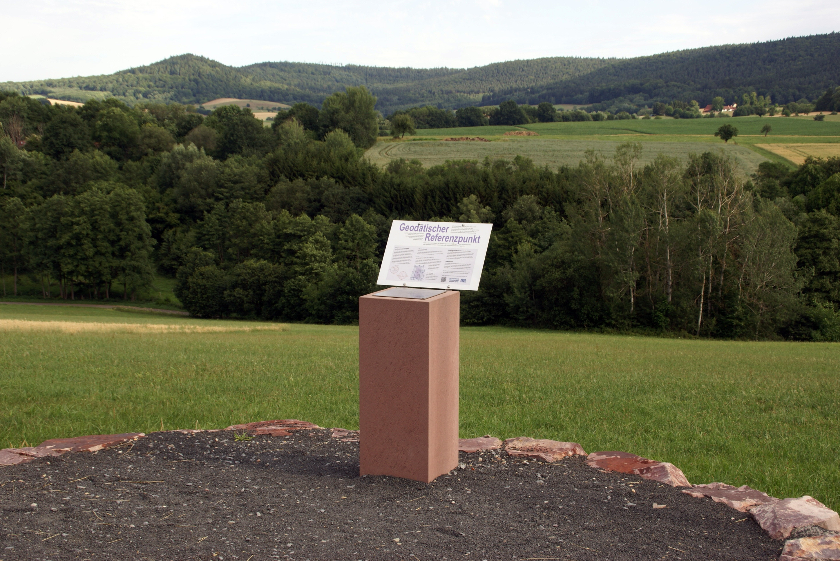 Westerngrund, Kahler Straße: Geodetic centre of the European Community